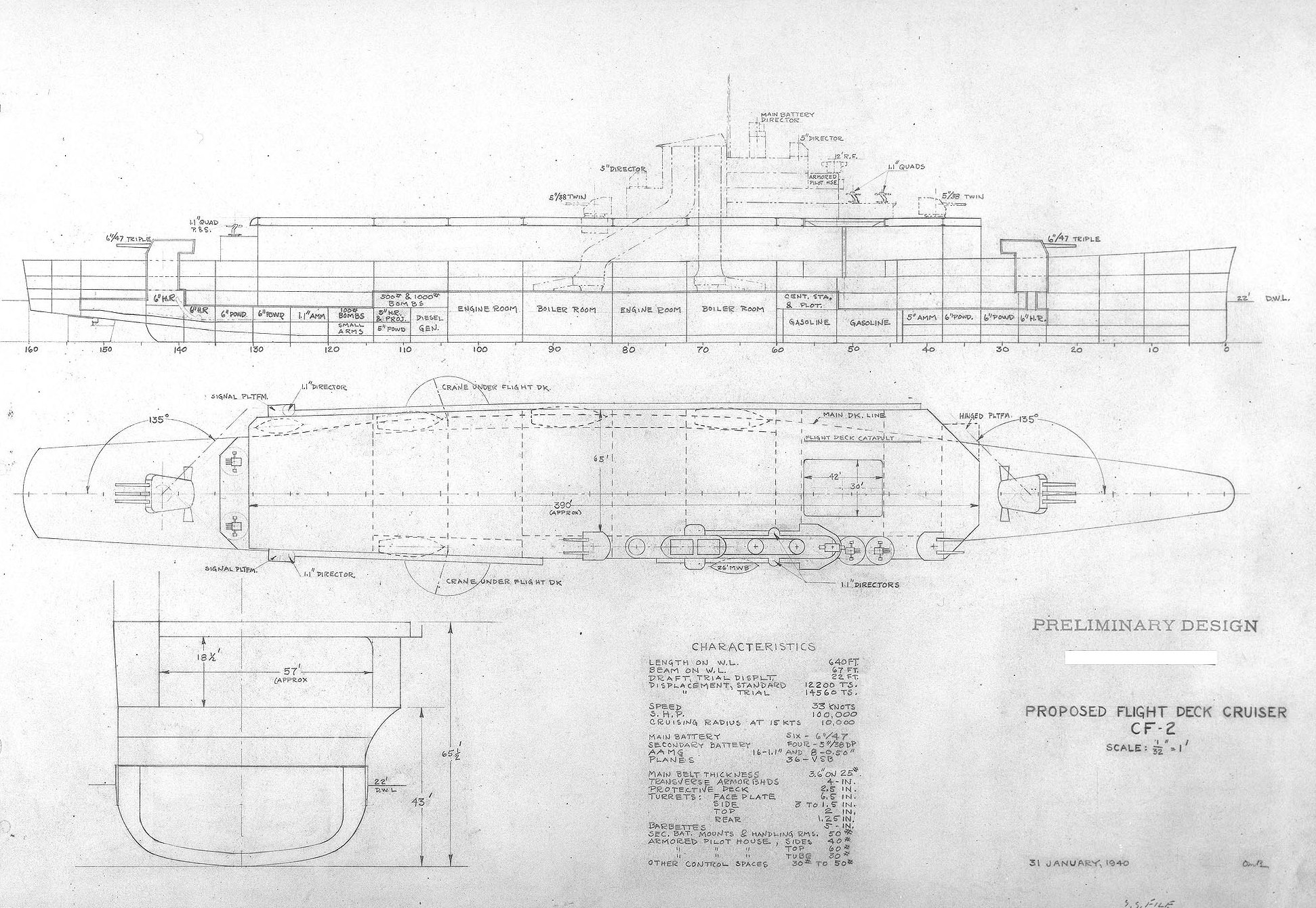 Proposed Flight Deck Cruiser, CF-2 Preliminary design plan prepared for the General Board during the final effort to develop a flight deck cruiser ("CF"). This plan, dated 31 January 1940, is for a 12,200 ton standard displacement ship (14,560 ton trial displacement) with a main battery of six 6"/47 guns, a secondary battery of four 5"/38 guns and an aircraft complement of 36 scout-bombers. Ship's dimensions are: waterline length 640'; waterline beam 67'; draft 22'. Powerplant has 100,000 horsepower for a speed of 33 knots. Scale of the plan and side elevation drawings is 1/32" = 1'. The original plan is in the 1939-1944 "Spring Styles Book" held by the Naval Historical Center.